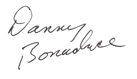 Danny Bonaduce's signature